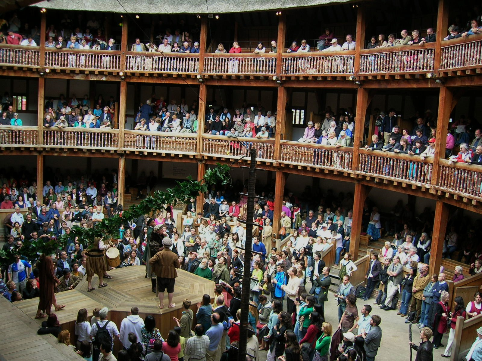 The audience- Shakespeare's Globe (before an afternoon performance of King Lear)